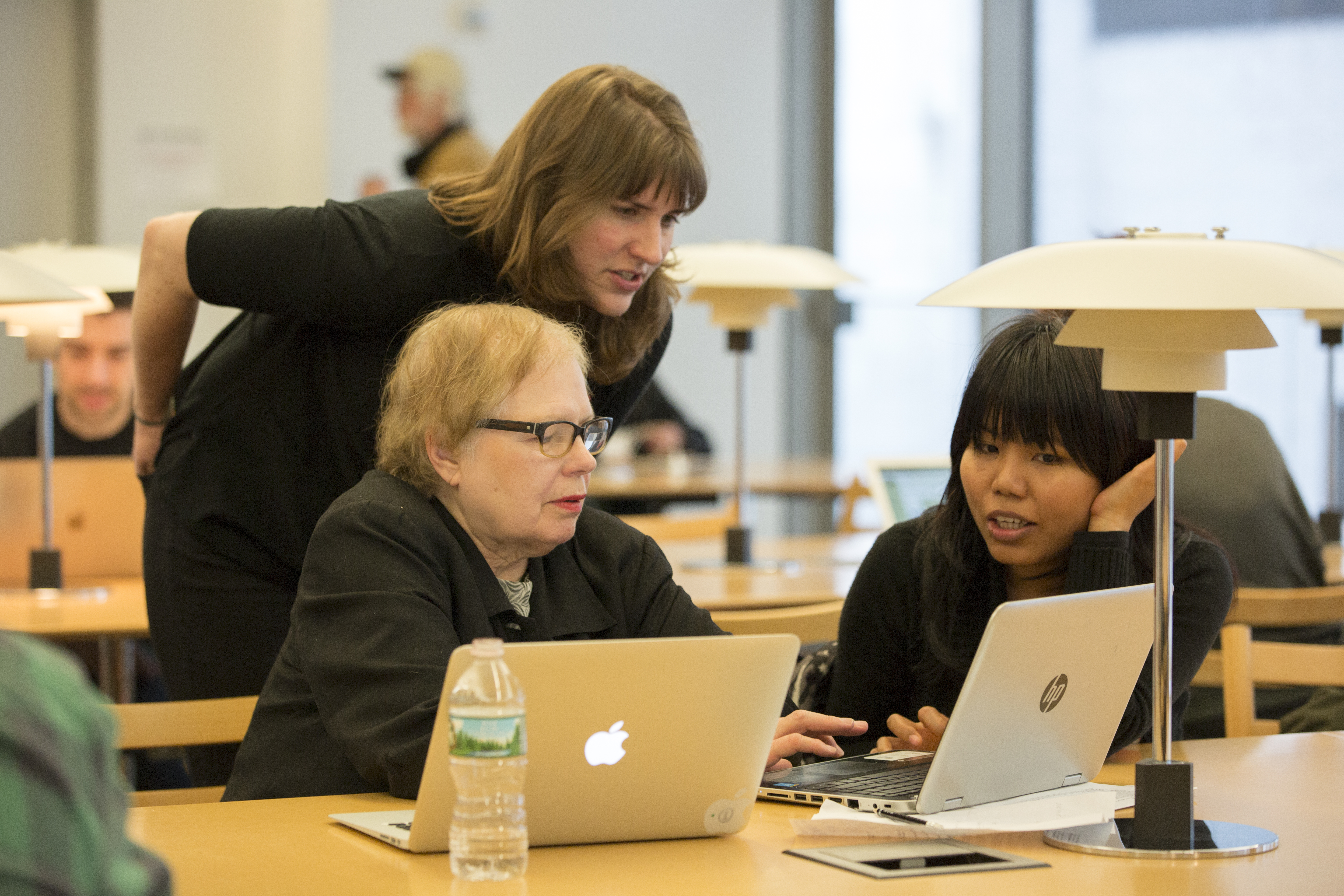 Art+Feminism at The Museum of Modern Art, New York City. March 3rd, 2018.